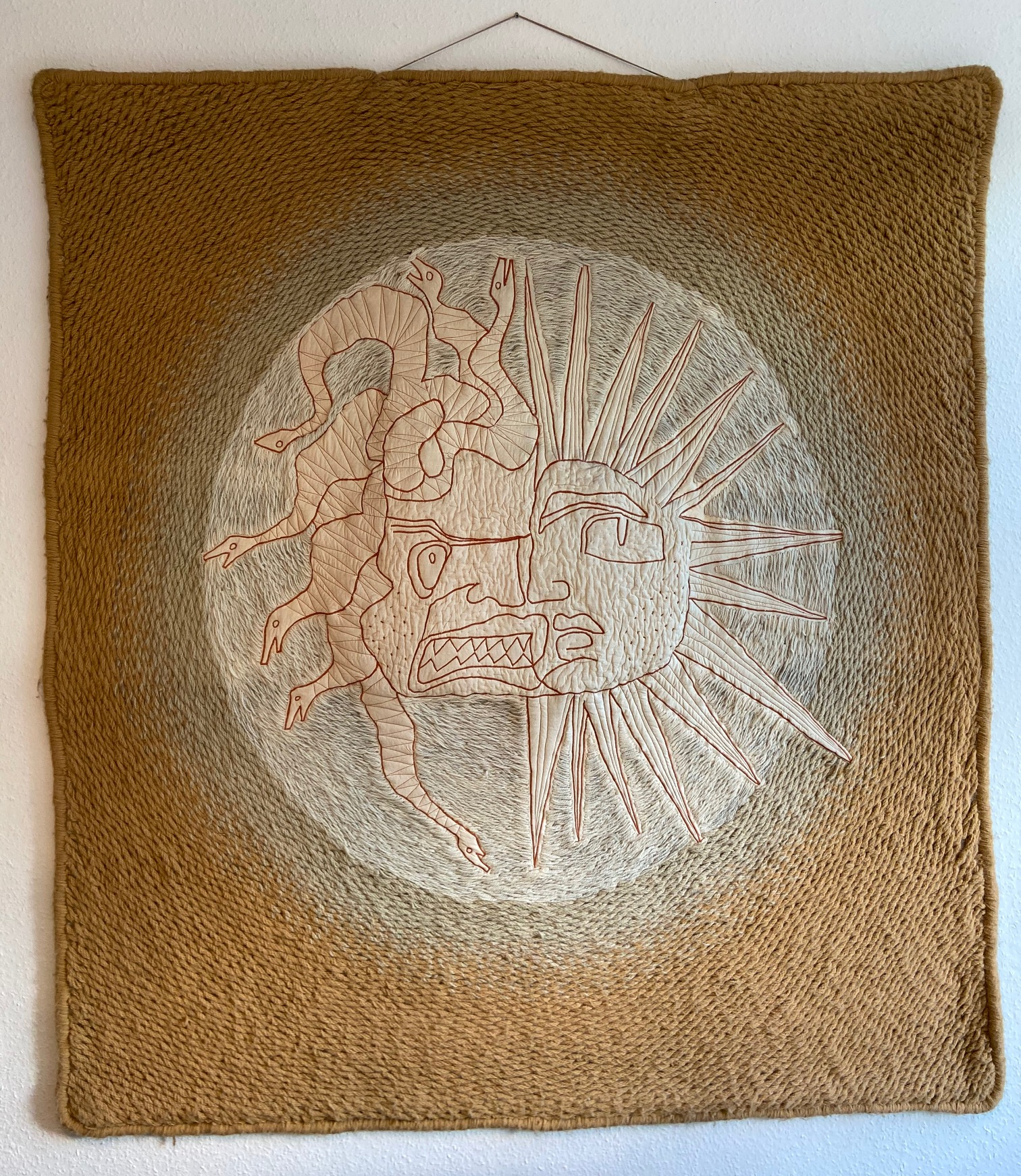 The image shows the hand-made tapestry "Good and bad sun" by polish artist Jadwiga Budlewska from 1986. Now-a-days privately owned in Germany.